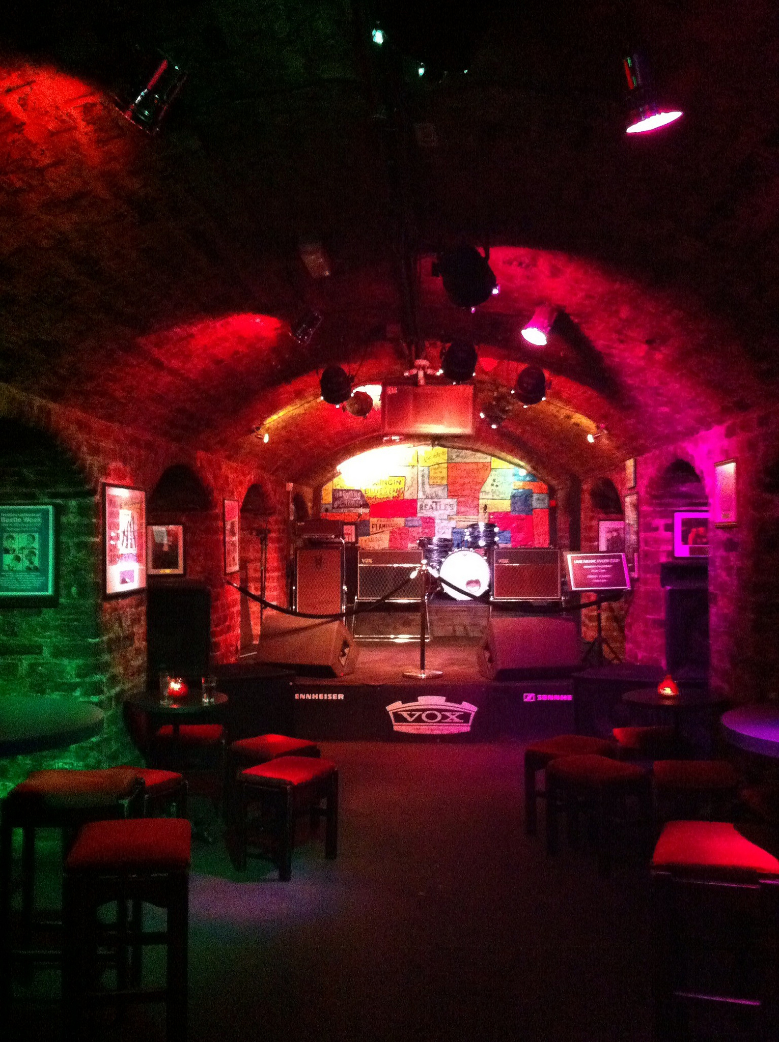 The interior of the recreated cavern club on Mathew street, liverpool